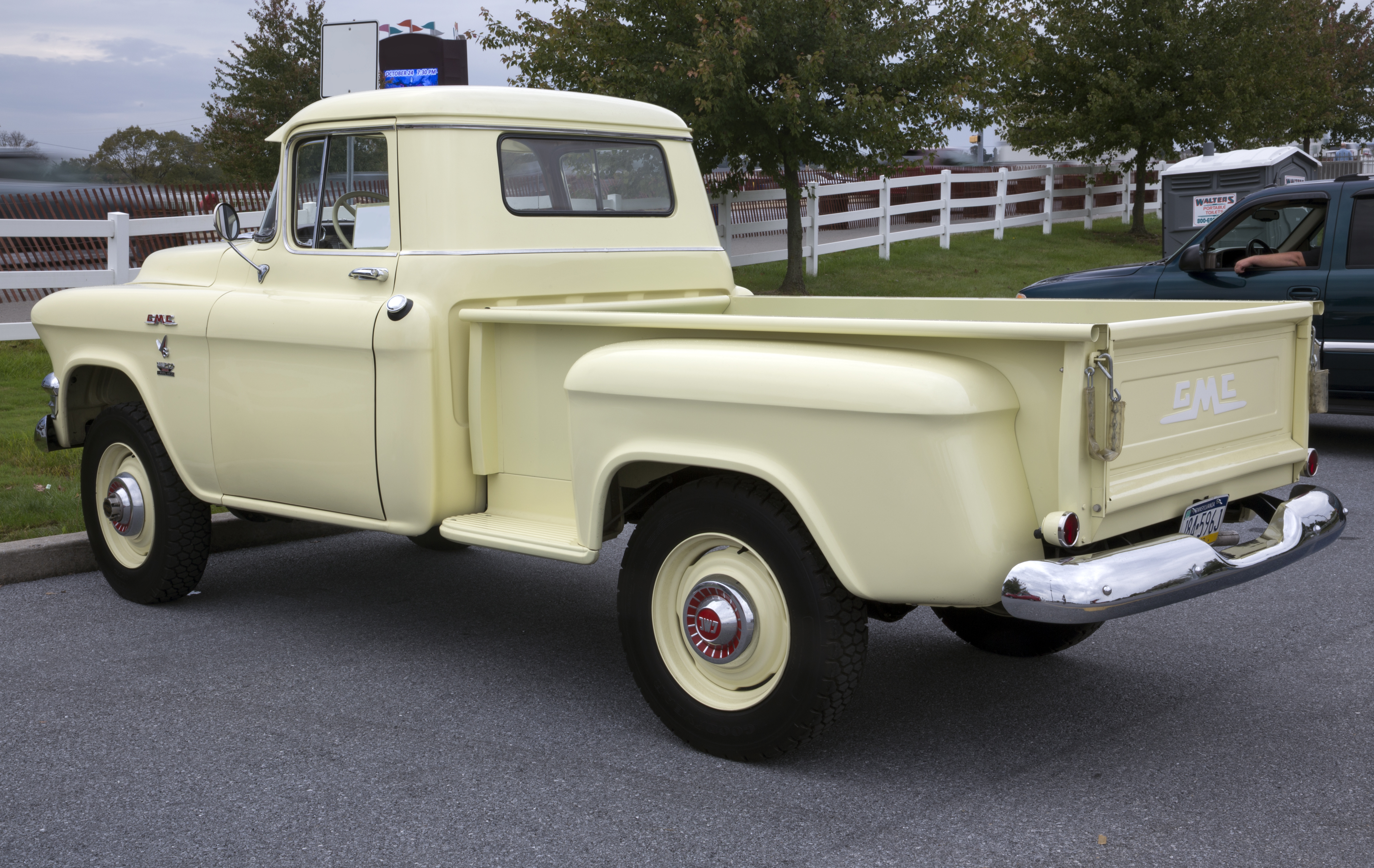 1955 GMC 100 V8 with the NAPCO Powr-Pak 4WD conversion offered for sale in the flea market area at Hershey 2019.